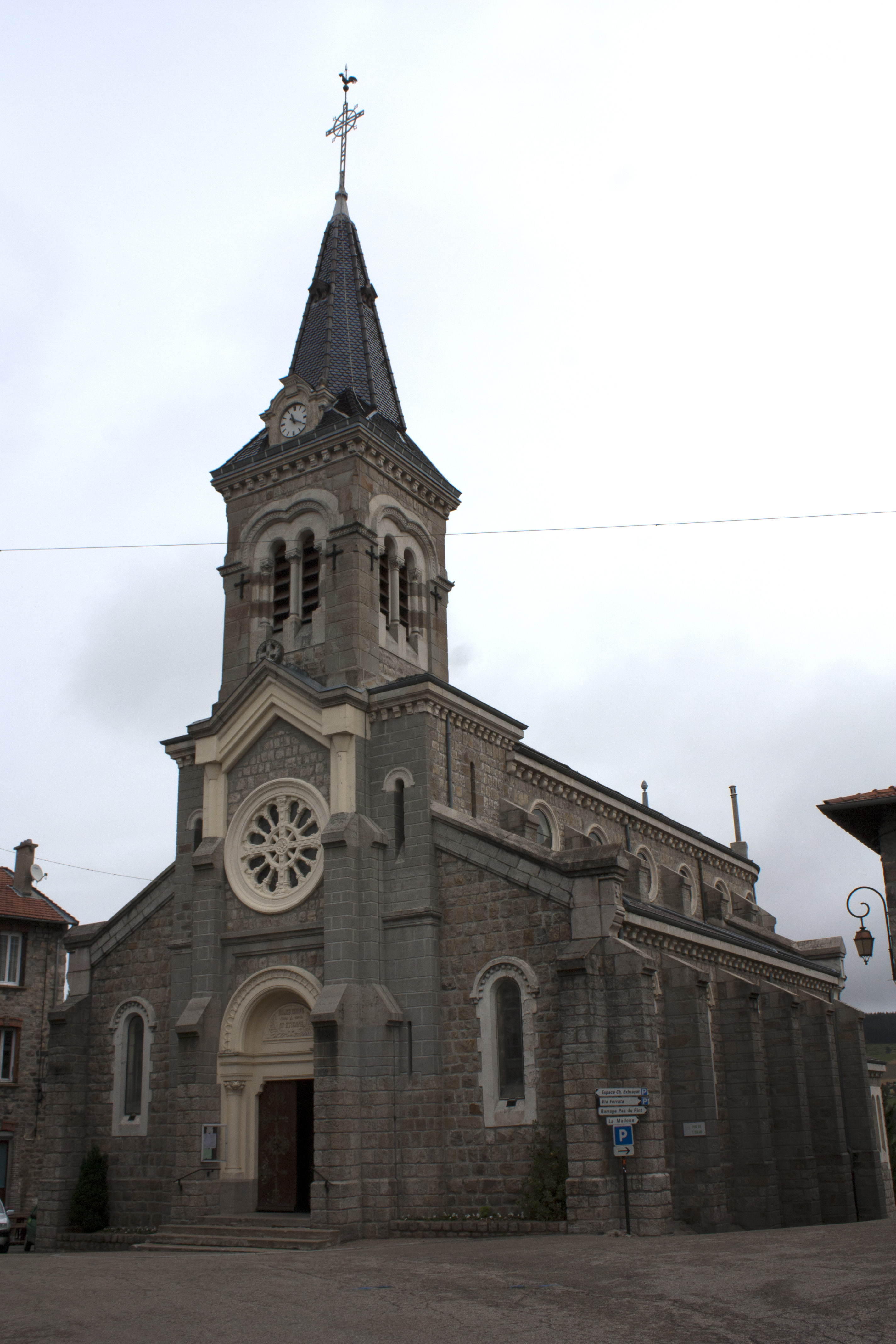 Church St. Stephen of Planfoy